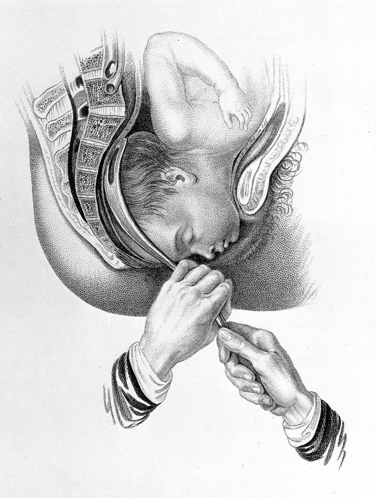 Foetus Rare Books Keywords: Obstetrics; Midwifery